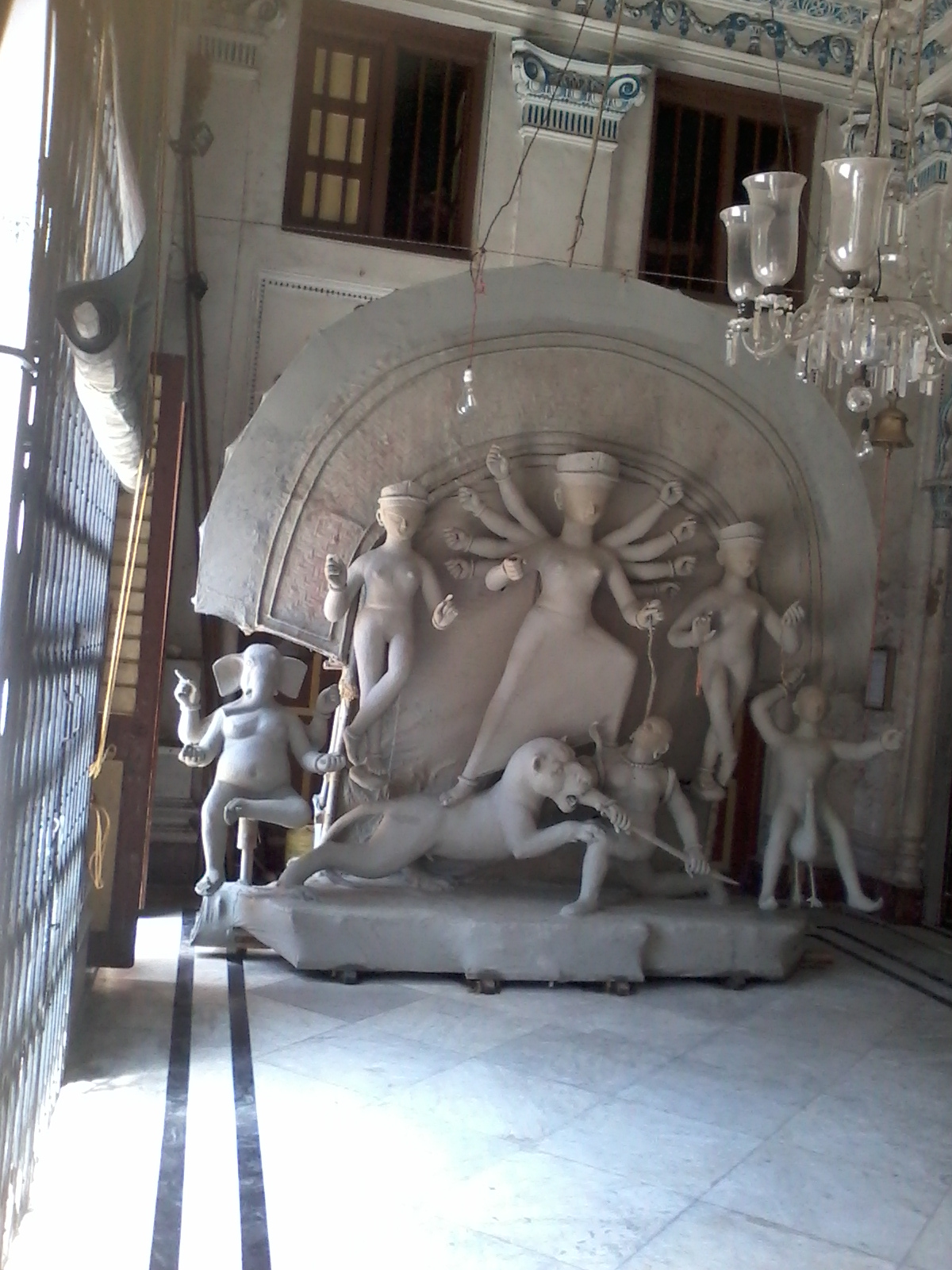 Photograph during Wiki Photo Walk in Kolkata 2019